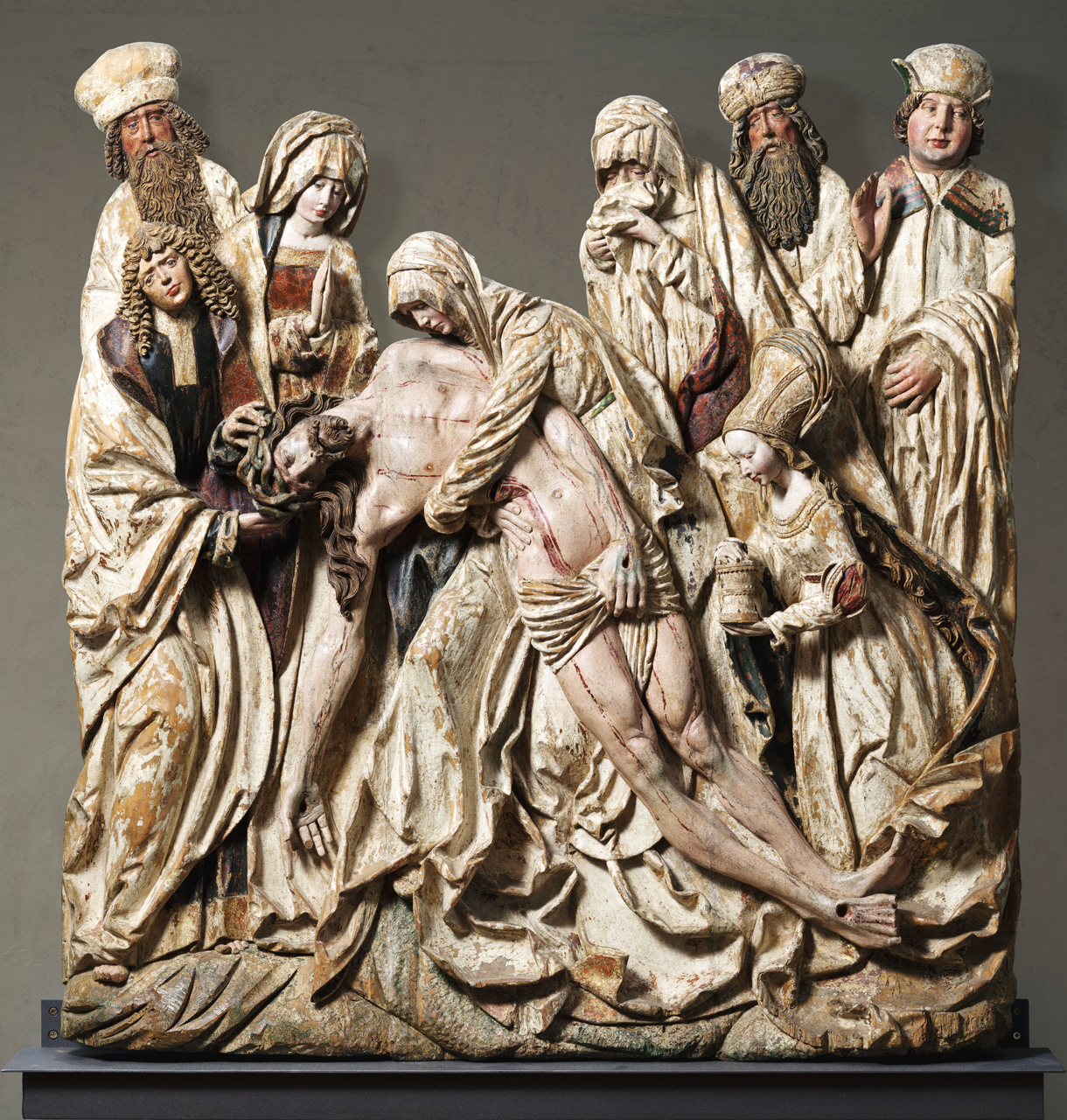 Lamentation of Christ, Master of the Lamentation of Christ, around 1510, South Bohemia, Collection of the National Gallery in Prague